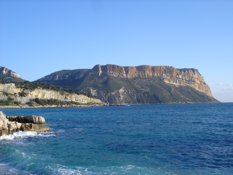 Cap canaille (= Dirty Cape), near Cassis, Department of Bouches du Rhone, France. This portion of the coast is in the PACA region - by BRGM, IFREMER, and the french "Earthquake Master plan" - the site most at risk of "unstable slopes withmobilizationbrutal field" when significant seismic. The collapse of the terrestrial and submarine such a structure would generate a Tsunami and a wave background can resuspend enormous amount of fine particles from the underwater industrial discharge close (Fosse Cassidaigne) of plant Pechiney / Alcan Rio Tinto. in french, this sort of area is called "tsunamogéniques"